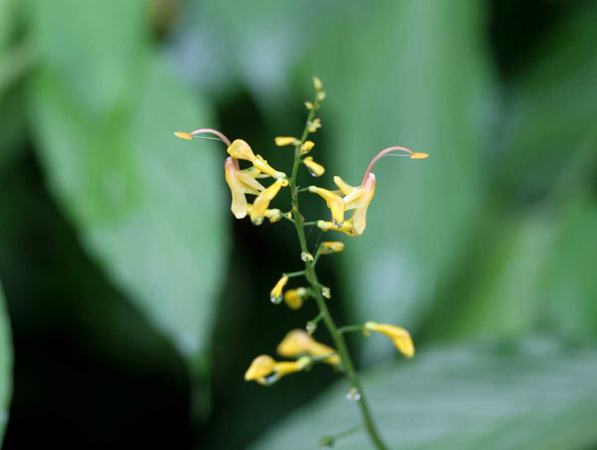 My leaf blades are oblong or ovate-lancerlate, 12 to 20cm long and 4 to 5cm wide. I usually appear in forests, at an altitude ranging from 400 to 1300m. I can reproduce by way of seeding and division propagation.